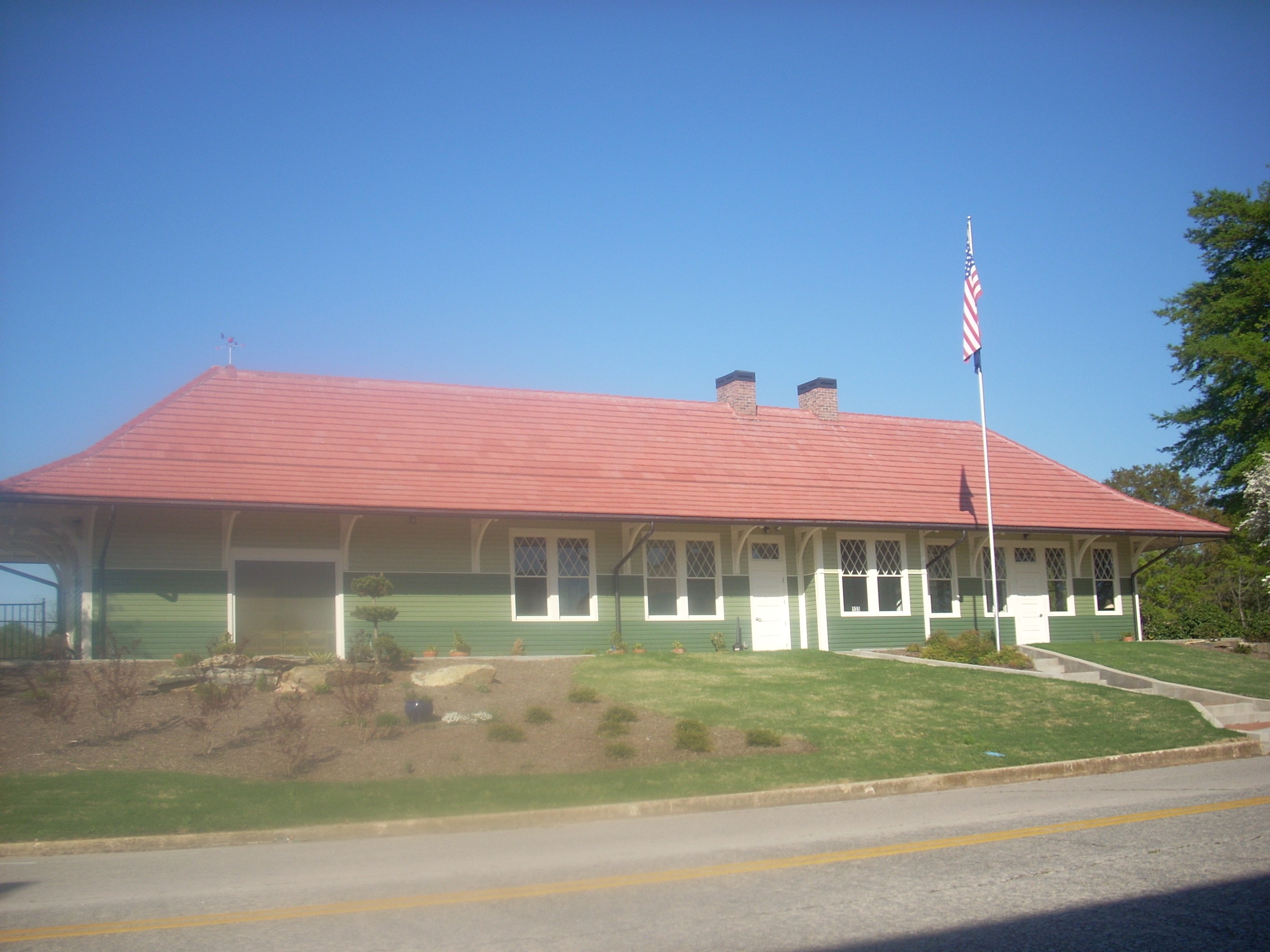 Southern Railway Passenger Station Westminster (Oconee County, South Carolina)